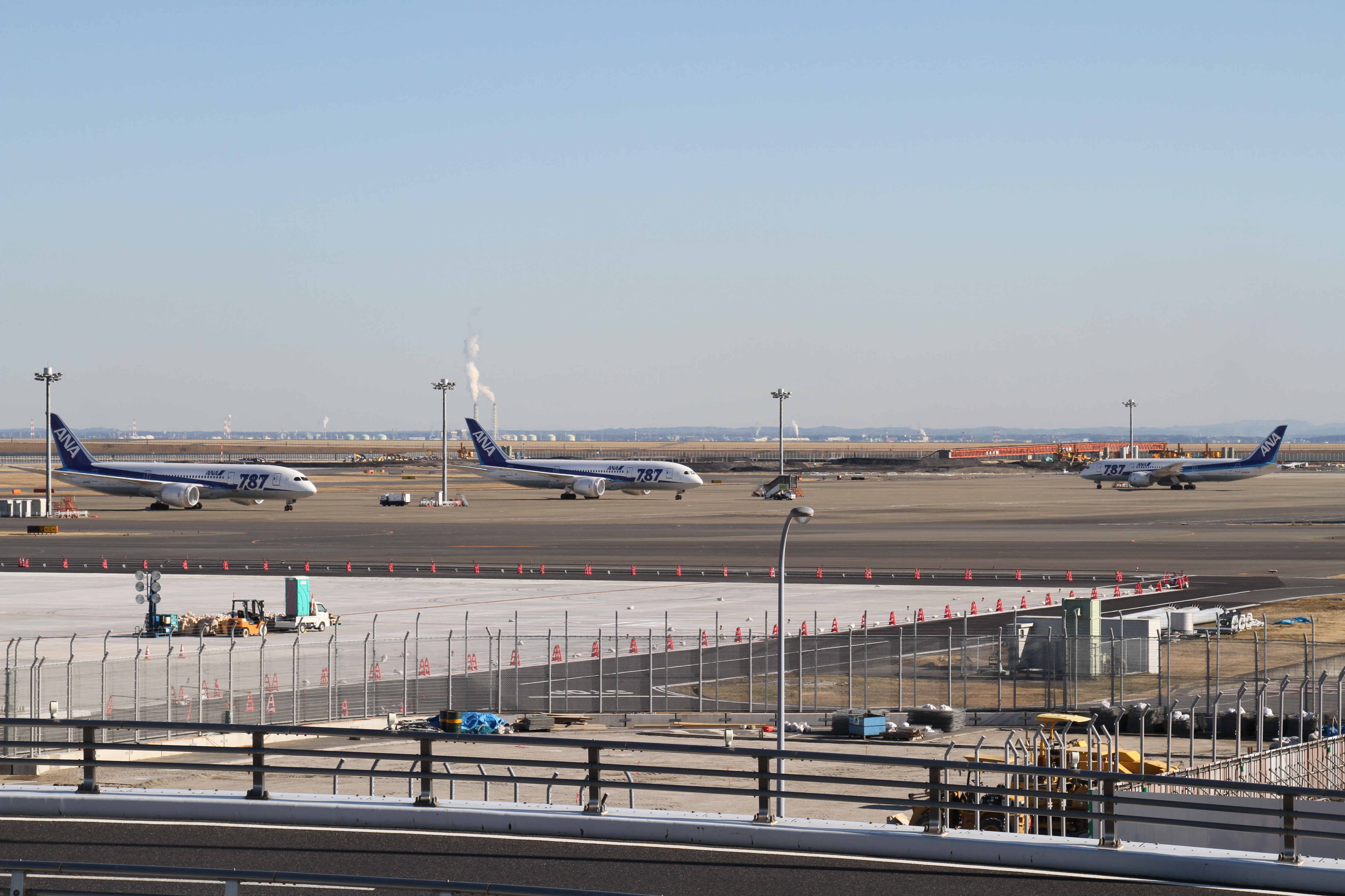 Tokyo International Airport, JA815A, JA816A, JA803A